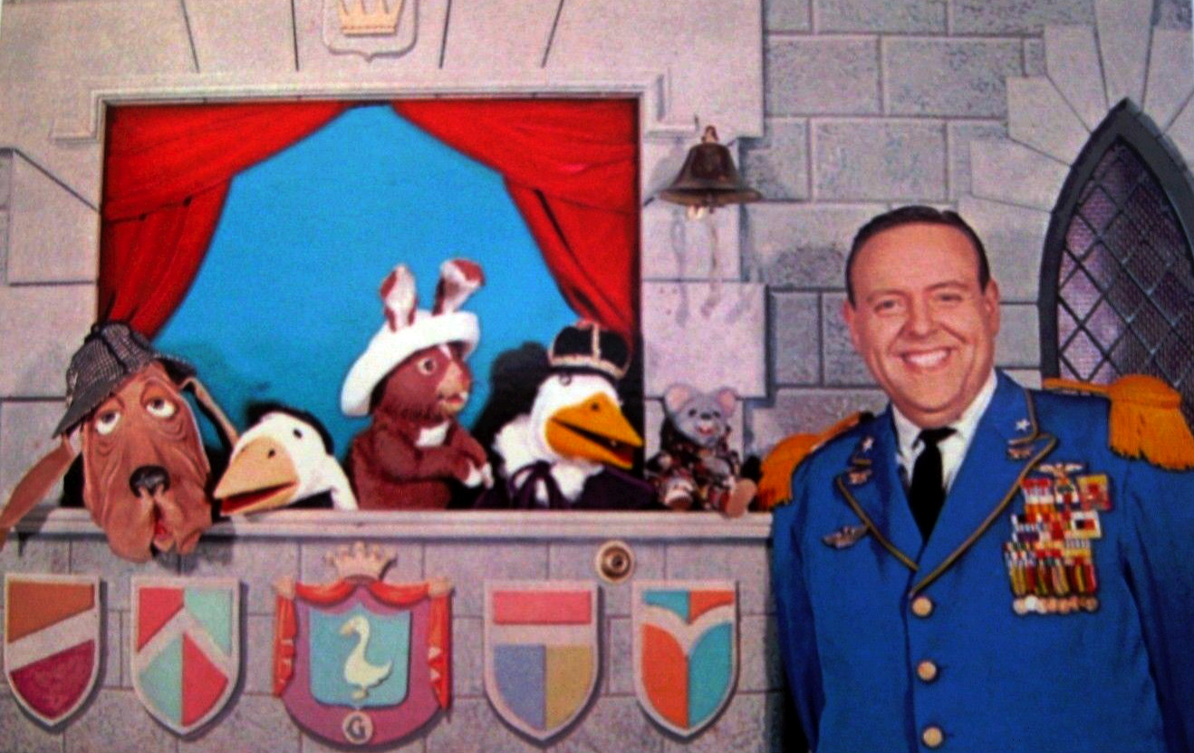 Postcard of Beauregard Burnside III, Chris Goose, Romberg Rabbit, Garfield Goose, Mackintosh Mouse and Frazier Thomas from Garfield Goose and Friends on WGN-TV.